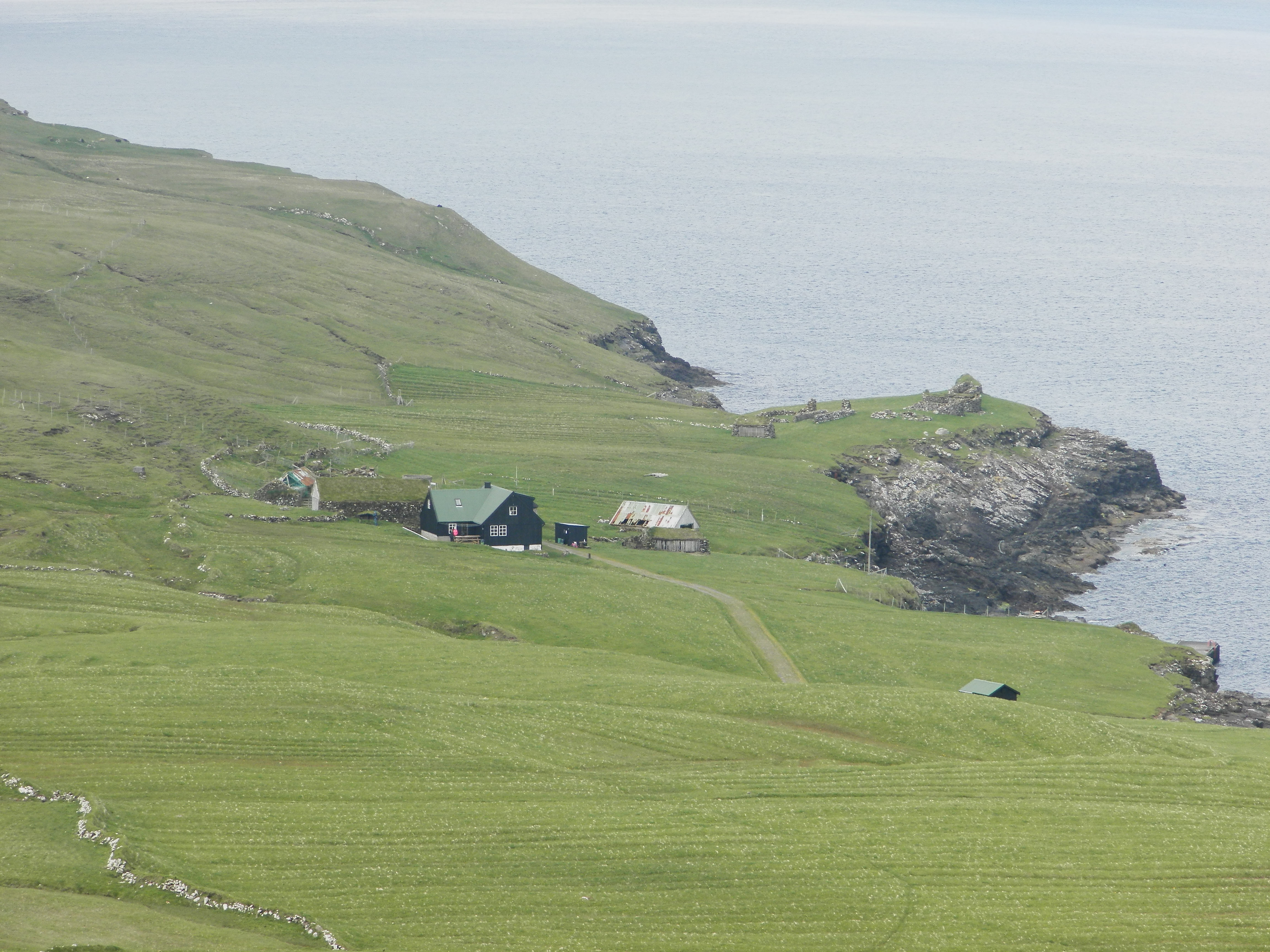 Koltur is one of the smallest islands of the Faroe Islands. The population is 1 as of 2014. Koltur has ancient stone houses with turf roofs. The neighbourhood Heima í Garði has been renovated in recent years. This photo was taken on 7 June 2014 when the public ferry and bus company of the Faroe Islands Strandfaraskip Landsins made an excursion to the island for its staff with families. Bjørn Patursson was guide.